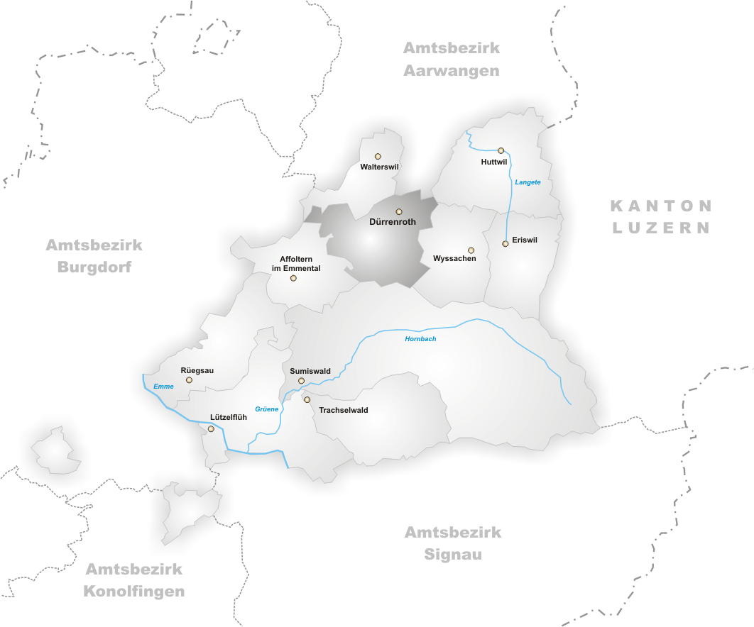 Municipality Dürrenroth